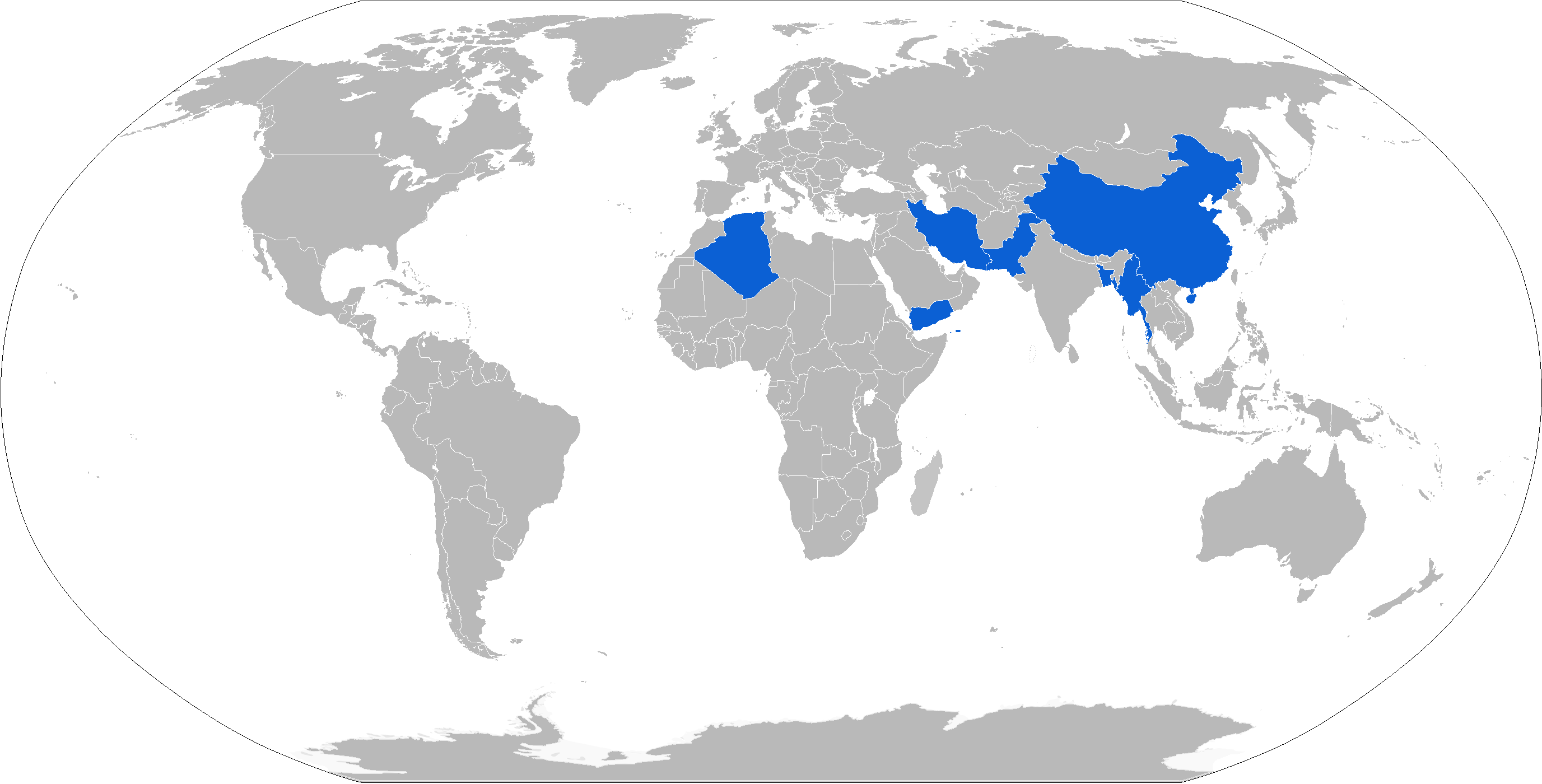 Map with YJ-83 operators in blue